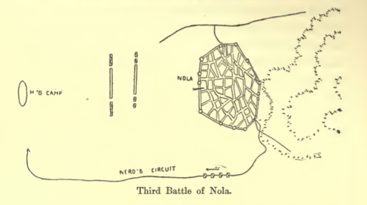 Representation of the third battle of Nola.